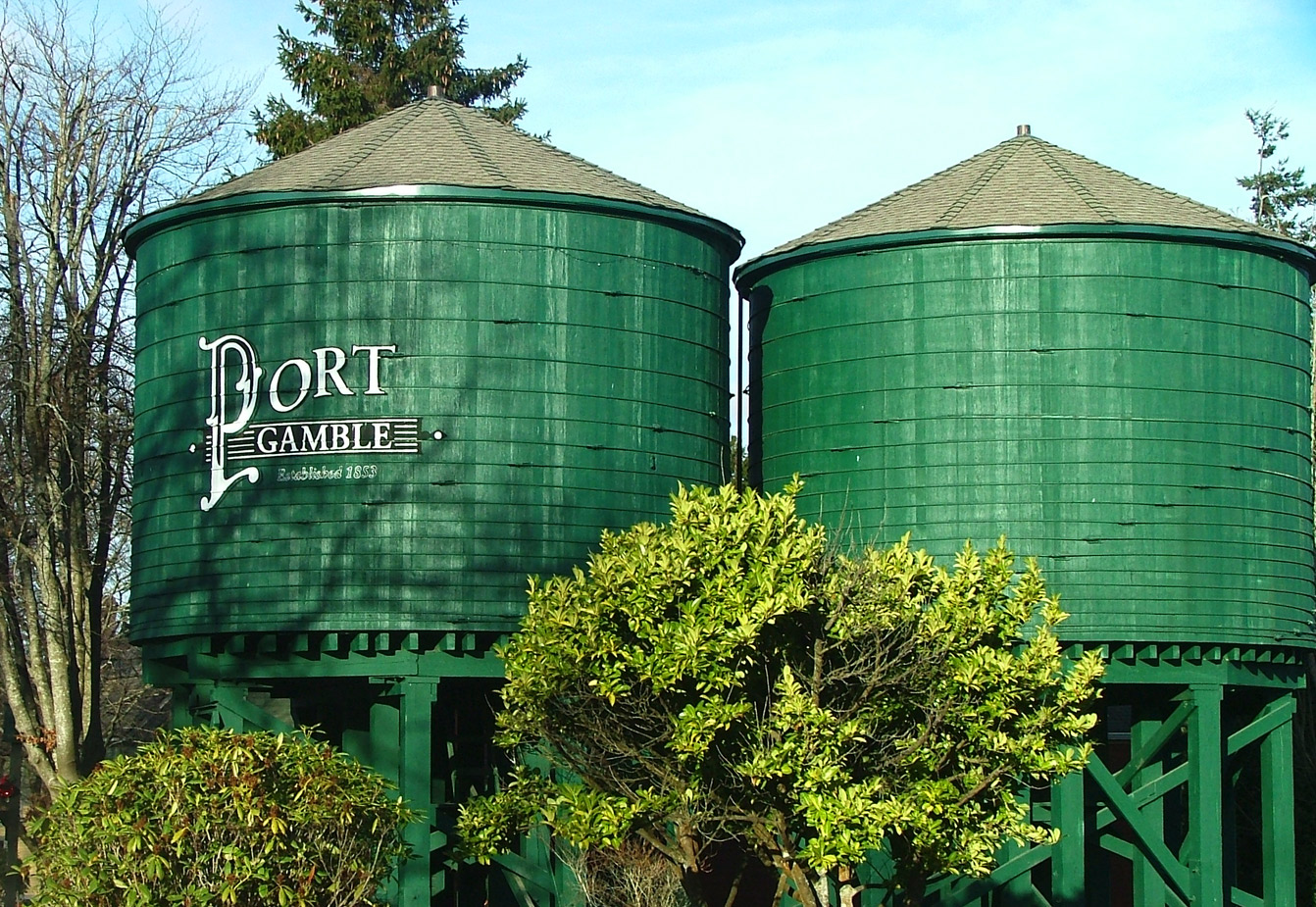 These water towers greet travelers along State Route 104 at Port Gamble, Washington.